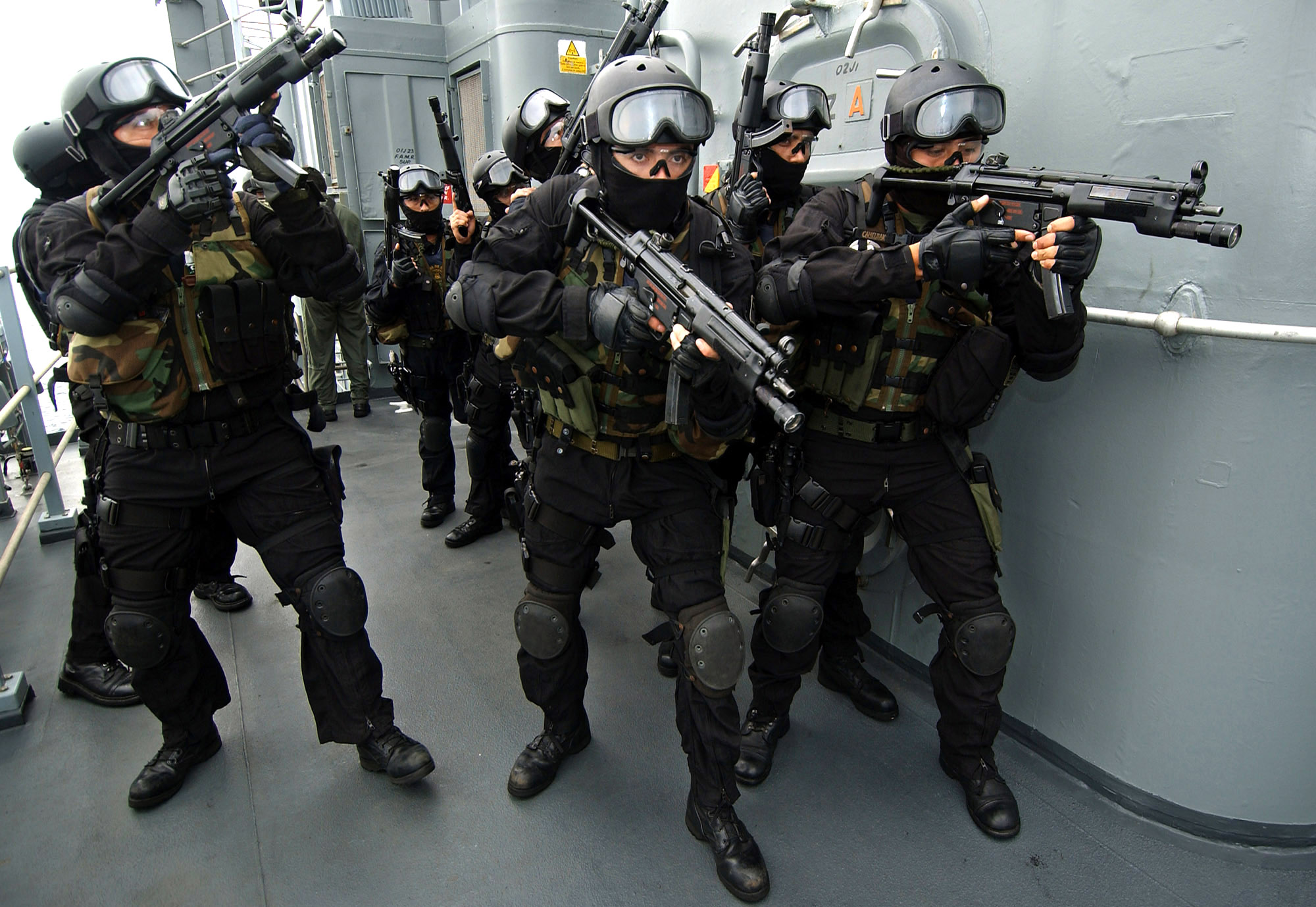 A group of Chilean Navy special warfare members participate in a Maritime Interdiction Operation drill while underway with the Chilean frigate BACH Almirante Williams (FF 19) during PANAMAX 2005.